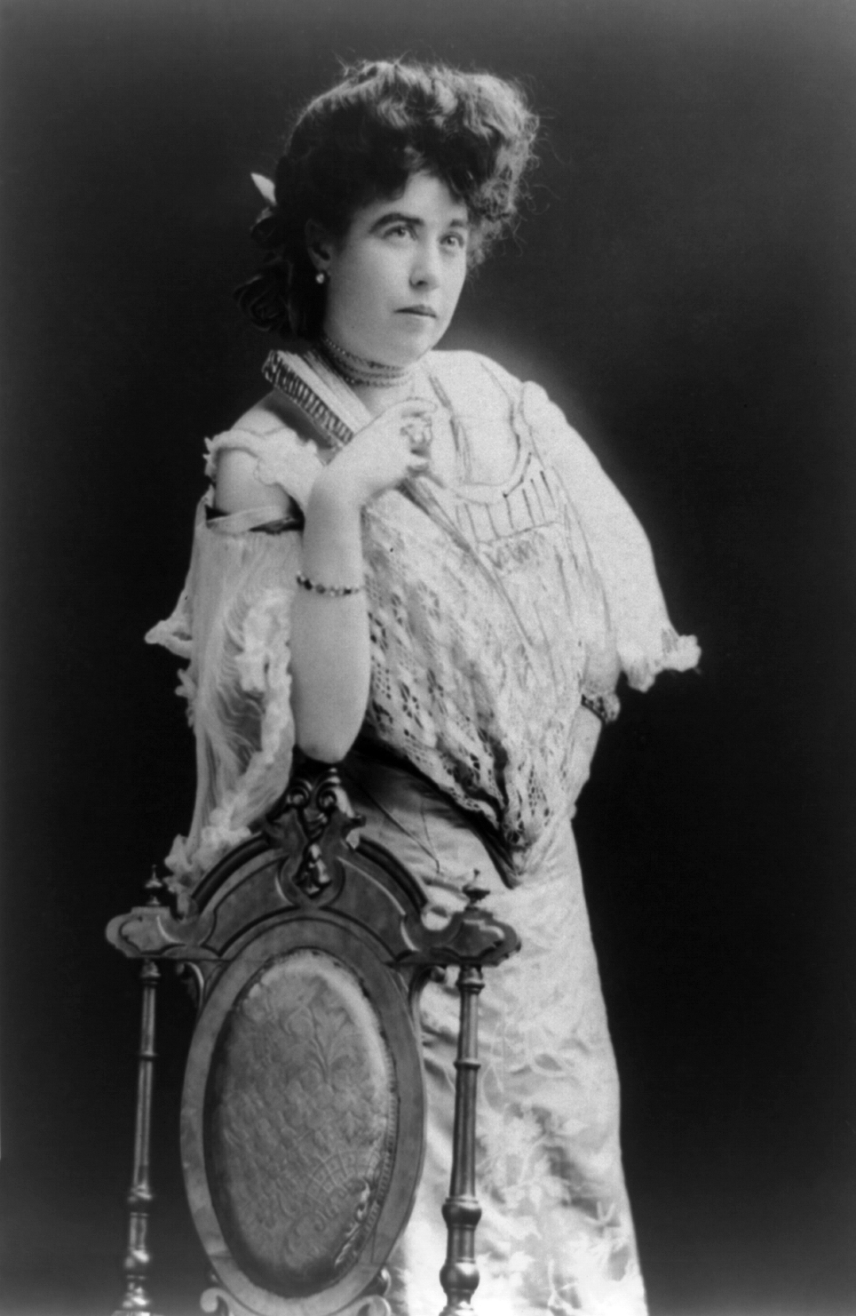 Mrs. James J. "Molly" Brown, survivor of the Titanic, three-quarter length portrait, standing, facing right, right arm on back of chair